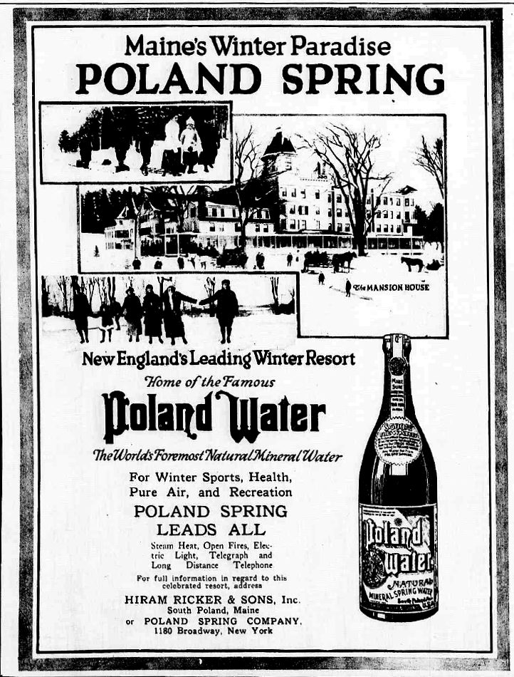 New York newspaper ad for the spring and the water.